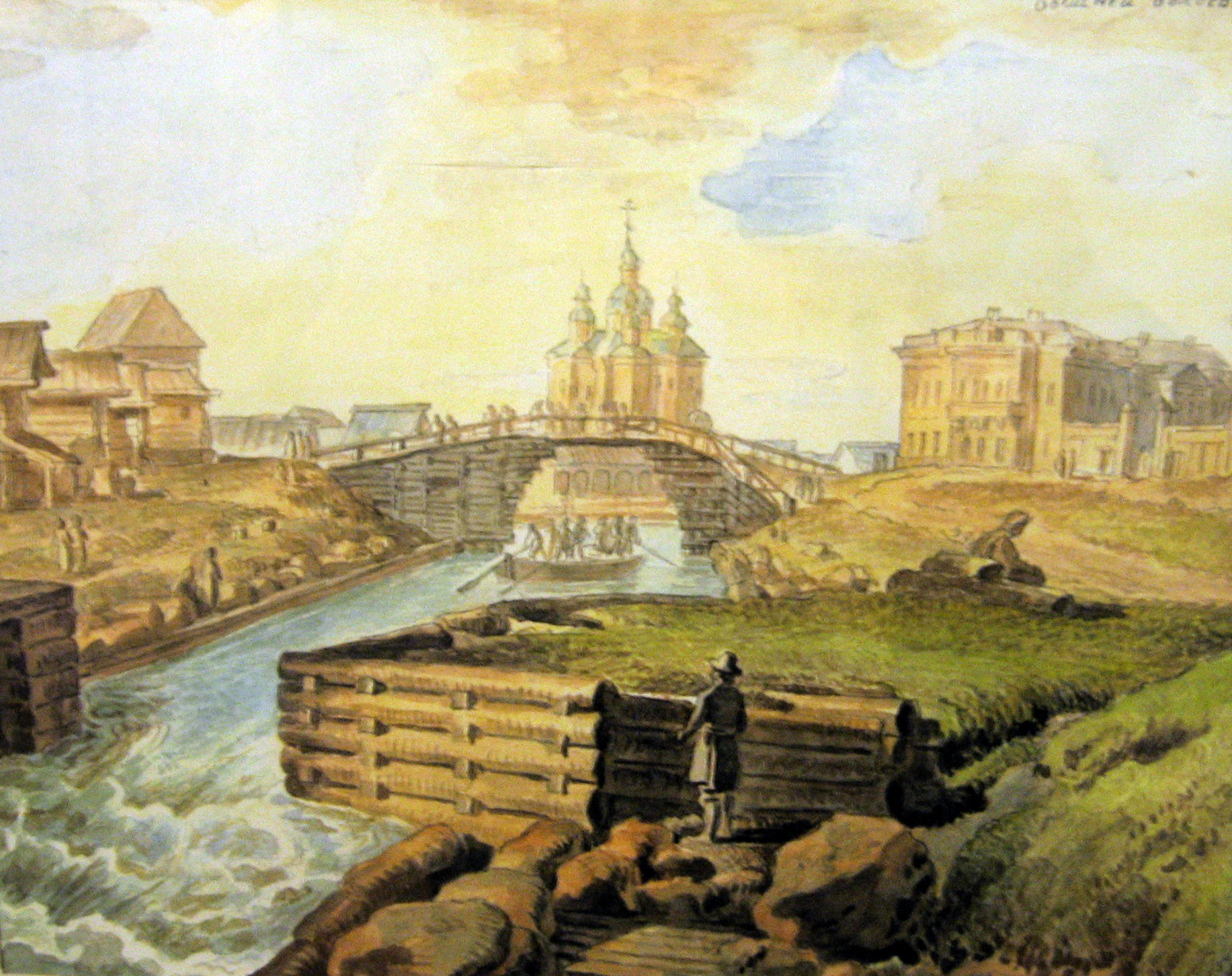 A dam in the town of Vyshny Volochok. Watercolor painting. From the collection of the Tver State United museum.